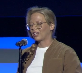 Elle Reeve in May 2018